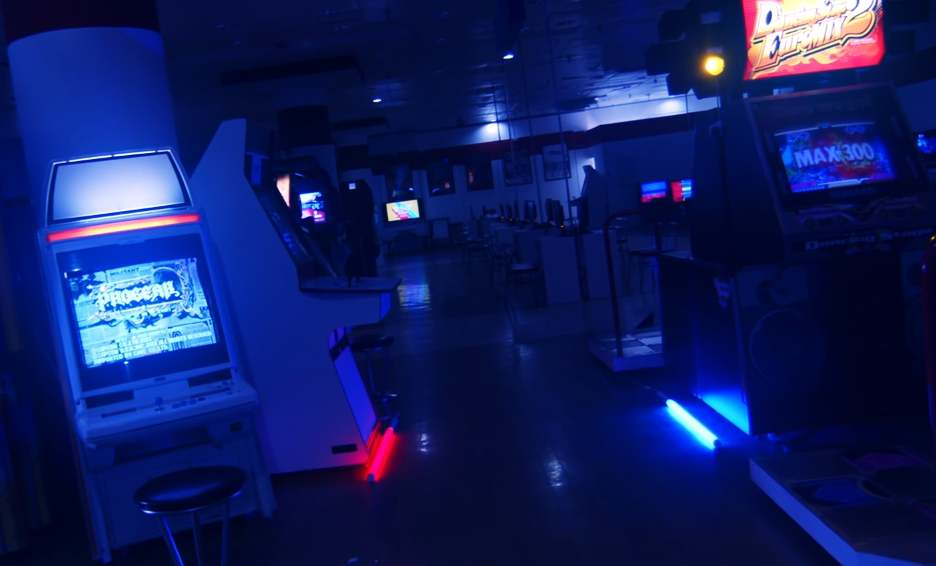 Still from "Arcade", a short film directed Alexandre Do and shot at Croydon's Heart of Gaming arcade.